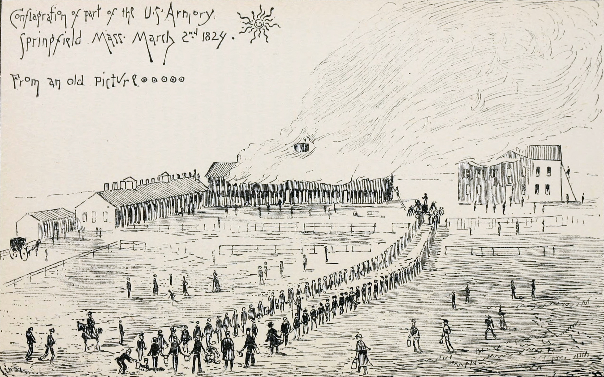 A line of men attempt to extinguish a fire at the Old Springfield Armory, on March 2, 1824.